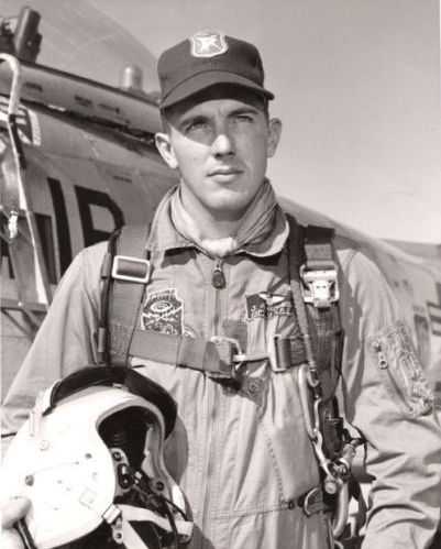 United States Air Force Colonel Joseph Aloysius Guthrie Jr. The data of the photograph is unknown but likely 1975 when he served as the Commandant of the United States Air Force Test Pilot School at Edwards Air Force Base